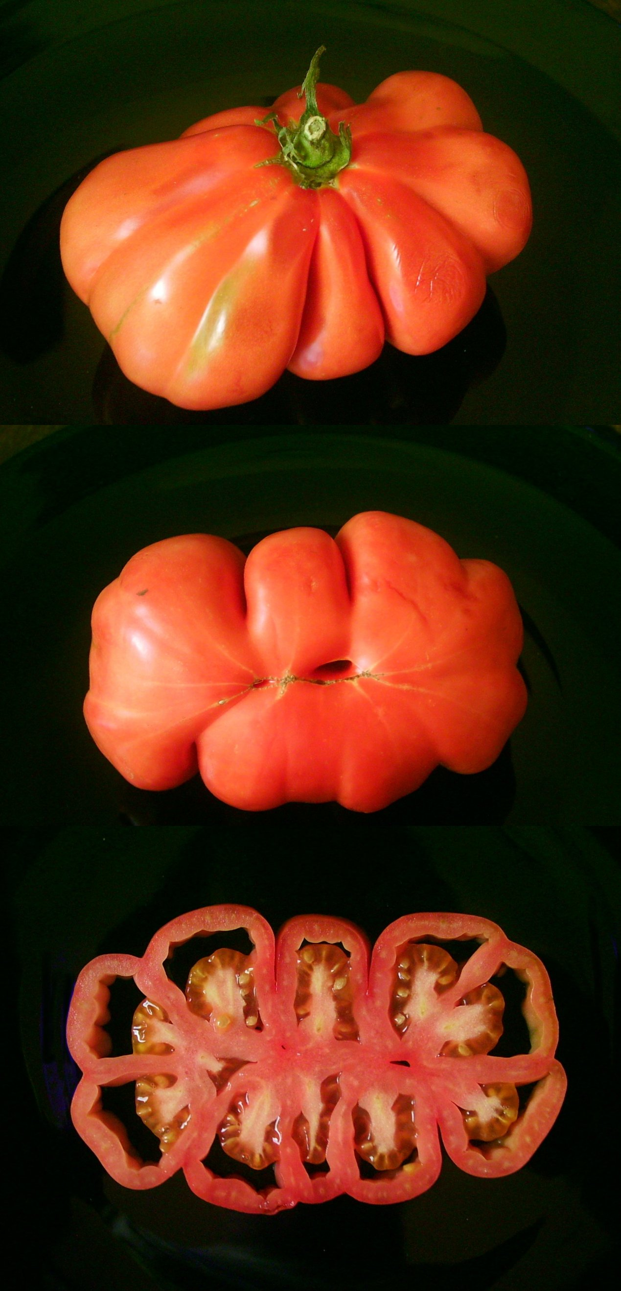 Cuor di bue (It. ‘oxheart’) tomato